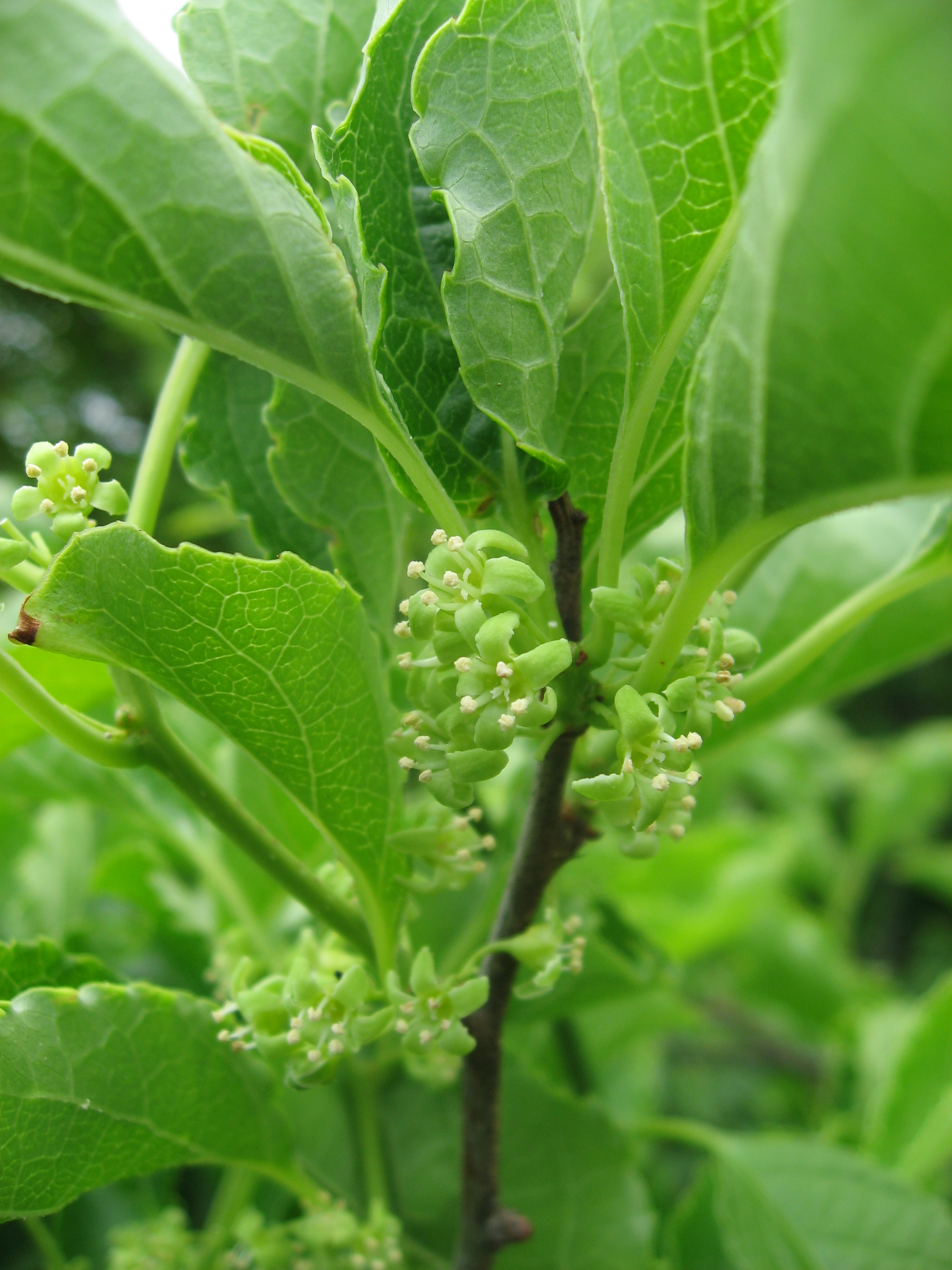 Celastrus orbiculatus, Male flower, Aizu area, Fukushima pref., Japan